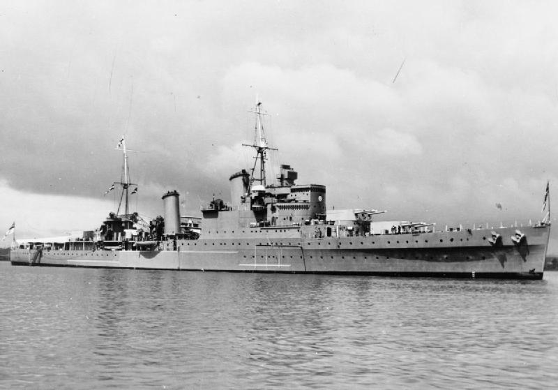 The Royal Navy Between the Wars, 1919-1939 The Southampton class cruiser HMS SOUTHAMPTON on completion in 1937.